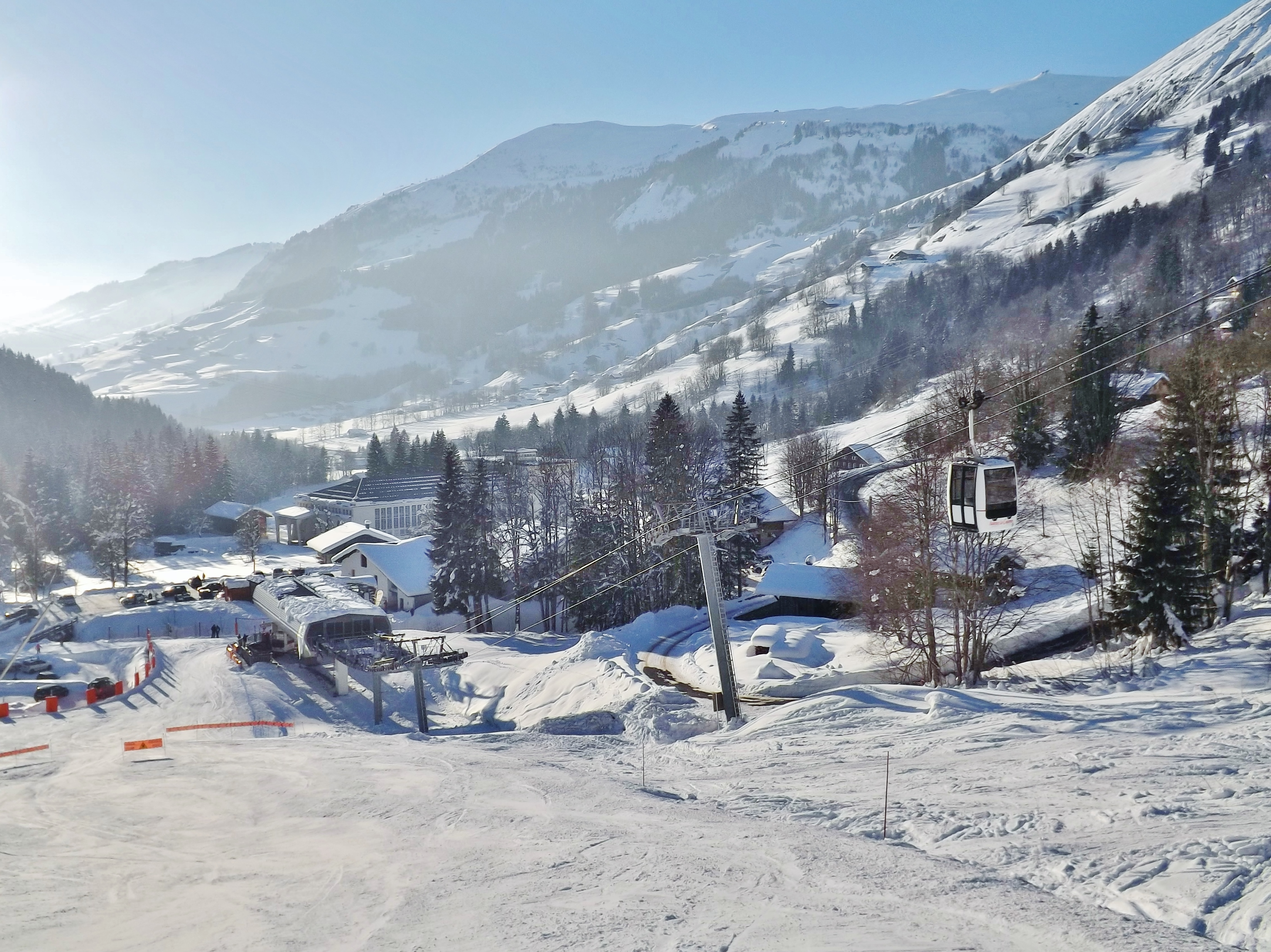 Sight of the Hauteluce ski resort gondola lift departure, in Savoie, France.